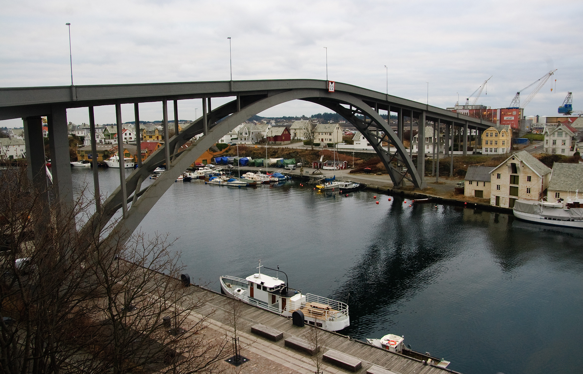 Risøybroa, a bridge in Haugesund, Rogaland, Norway.